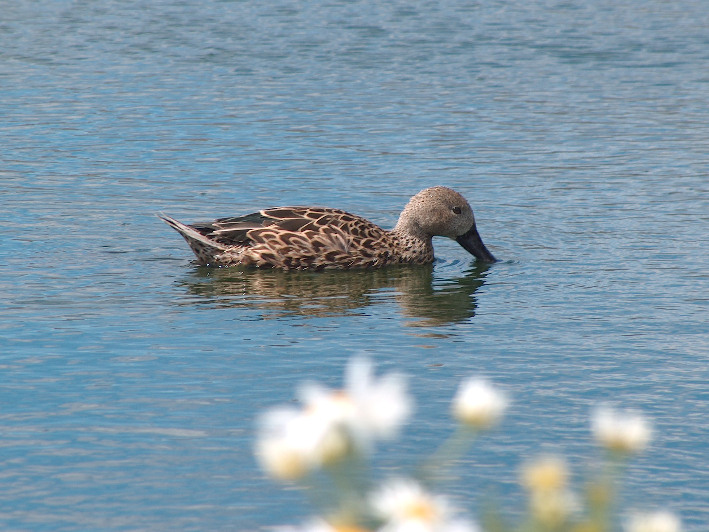 Red Shoveller Anas platalea, female, photographed end of January 2004, at a small nature reserve near Calafate, Argentina